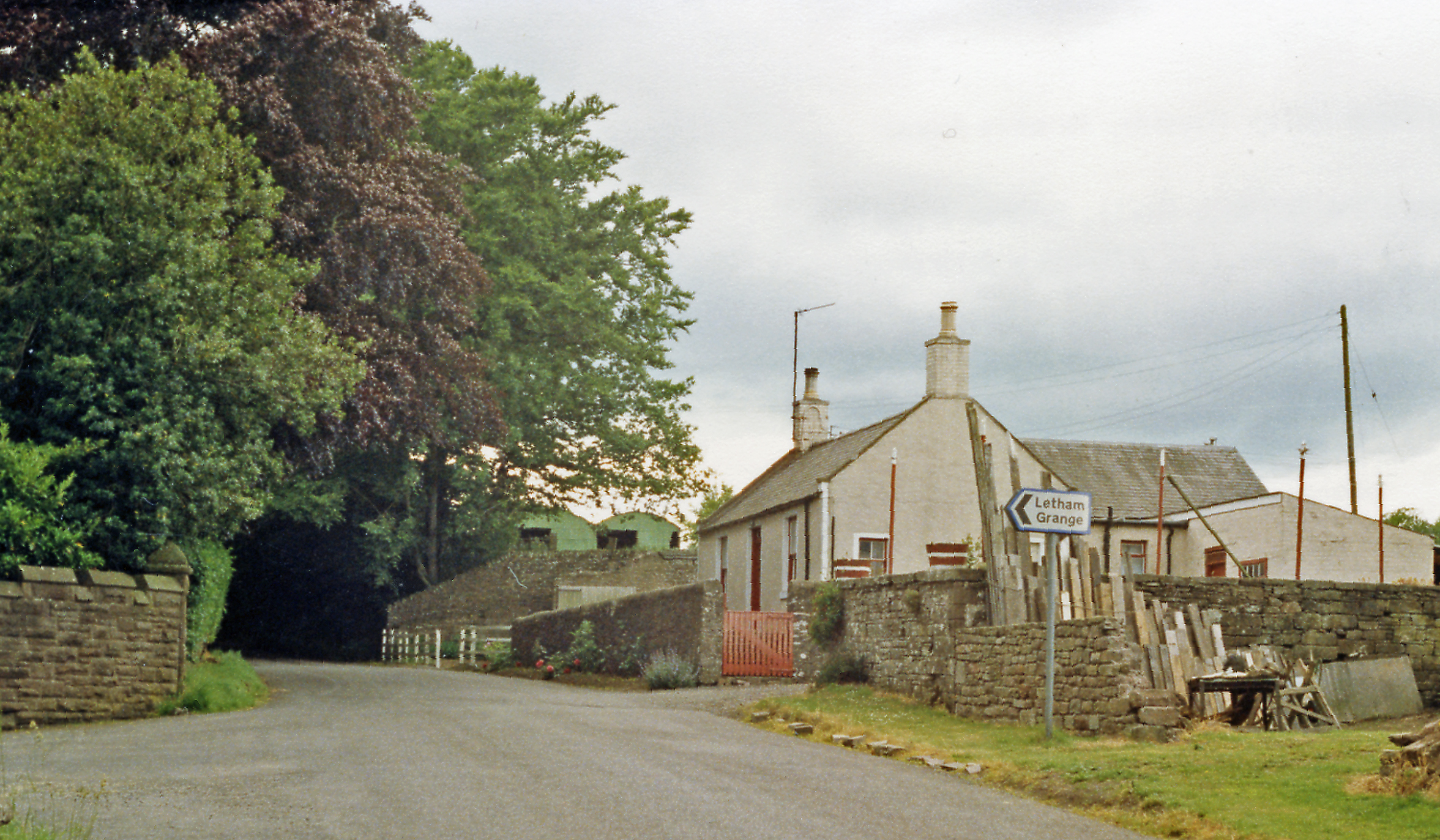 Site of Colliston station, 1988. View SW at the bridge over the course of the ex-Caledonian line from Arbroath (left) to Guthrie (right), closed to passengers 5/12/55, to goods 25/1/65; the station had been on the left.